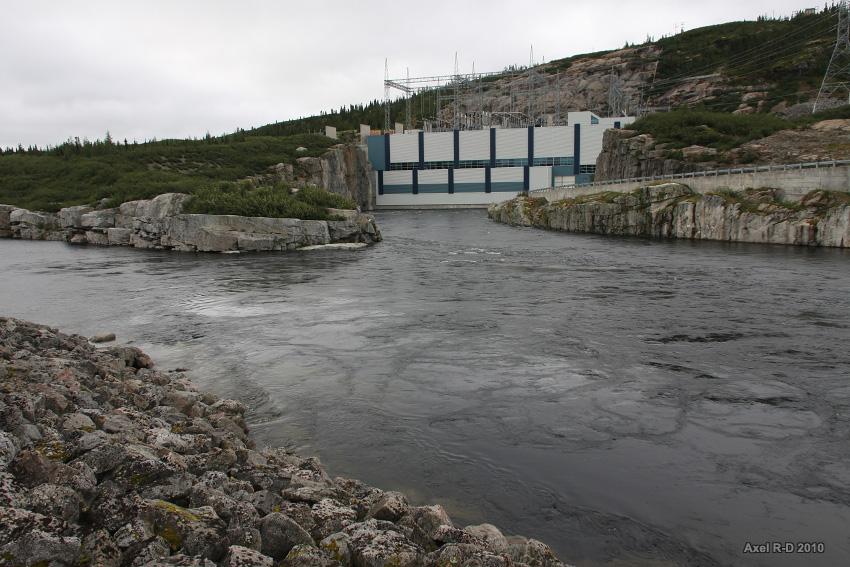 The Brisay Hydroelectric power station. The 469 MW hydroelectric power plant has been built as part of the second phase of the James Bay project.